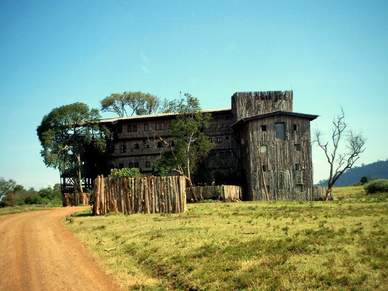 Flickr: Source: Link Author: Javic License: CC-BY-SA 2.0